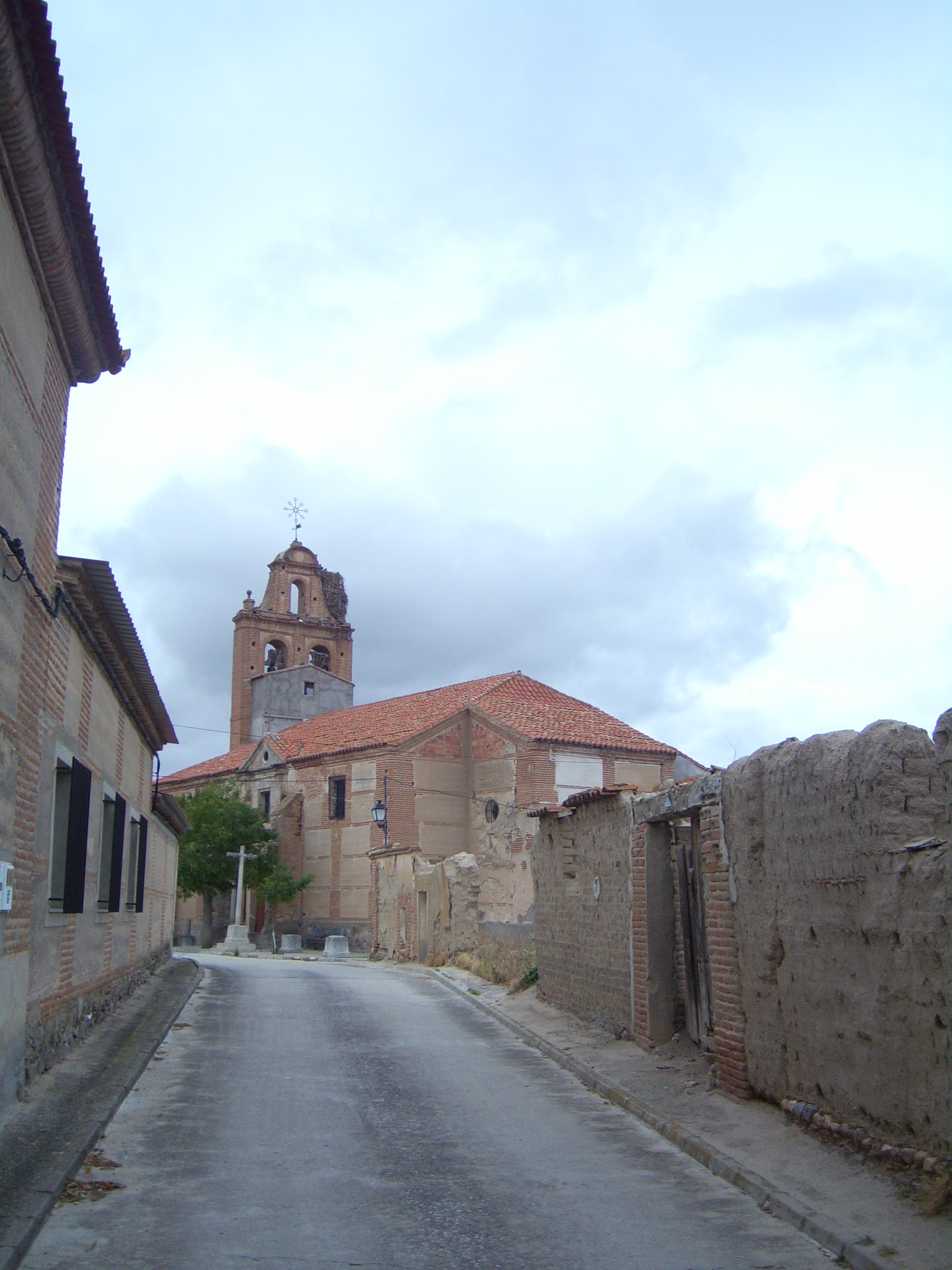 View of the village of San Pascual (Ávila, Spain)